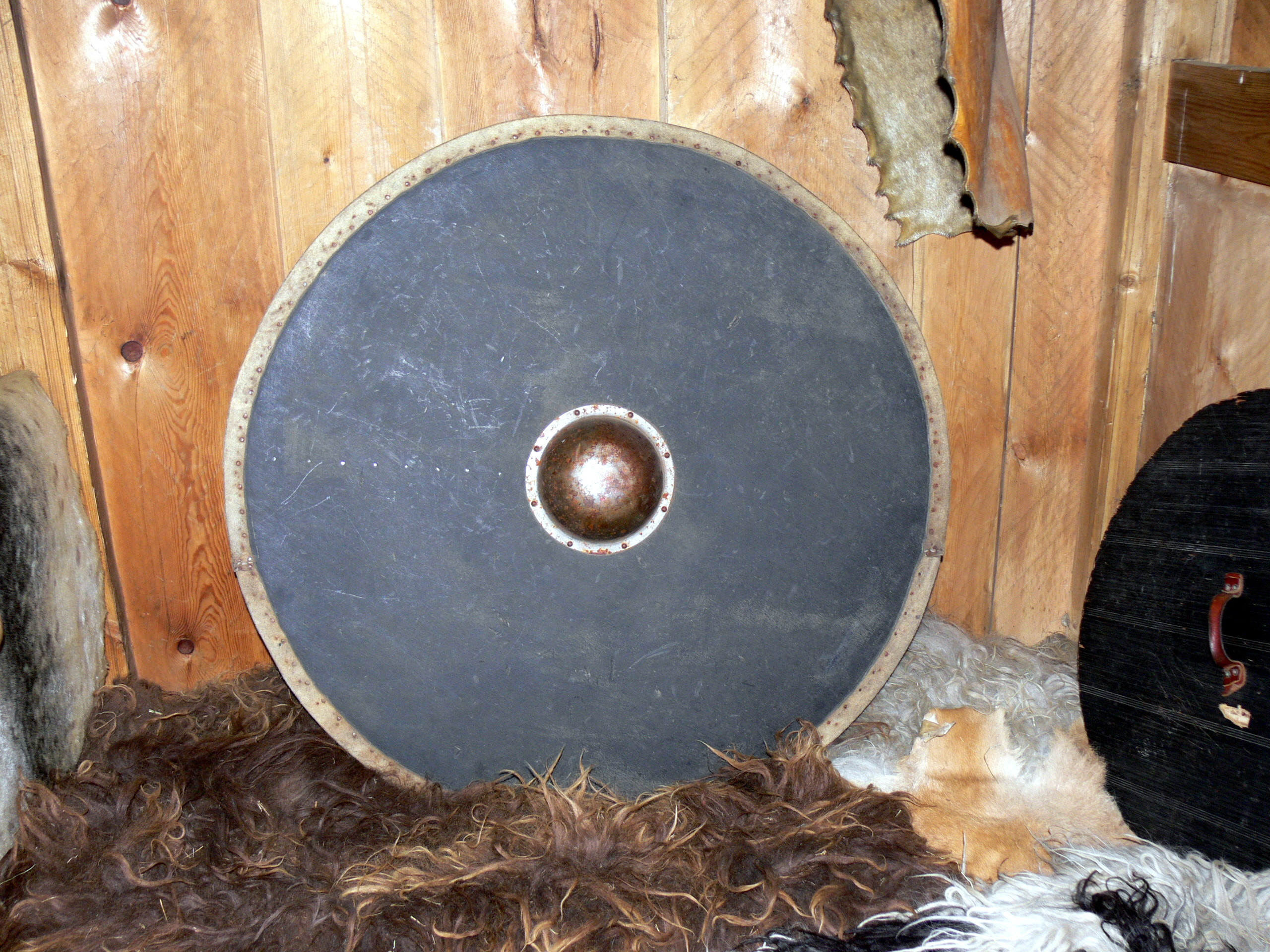 Eiríksstaðir. Viking shield.